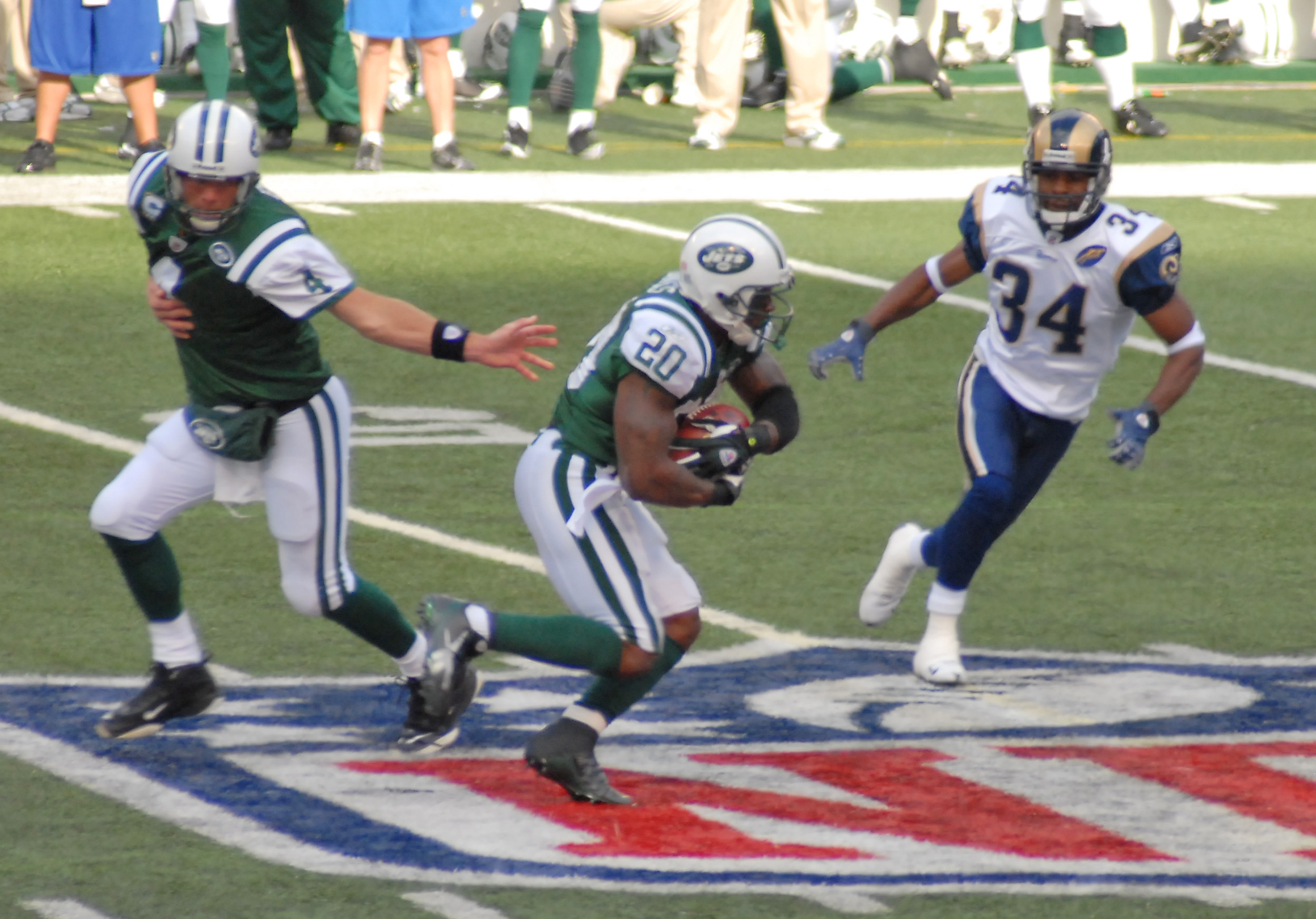 Thomas Jones of the New York Jets taking the ball against the St Louis Rams